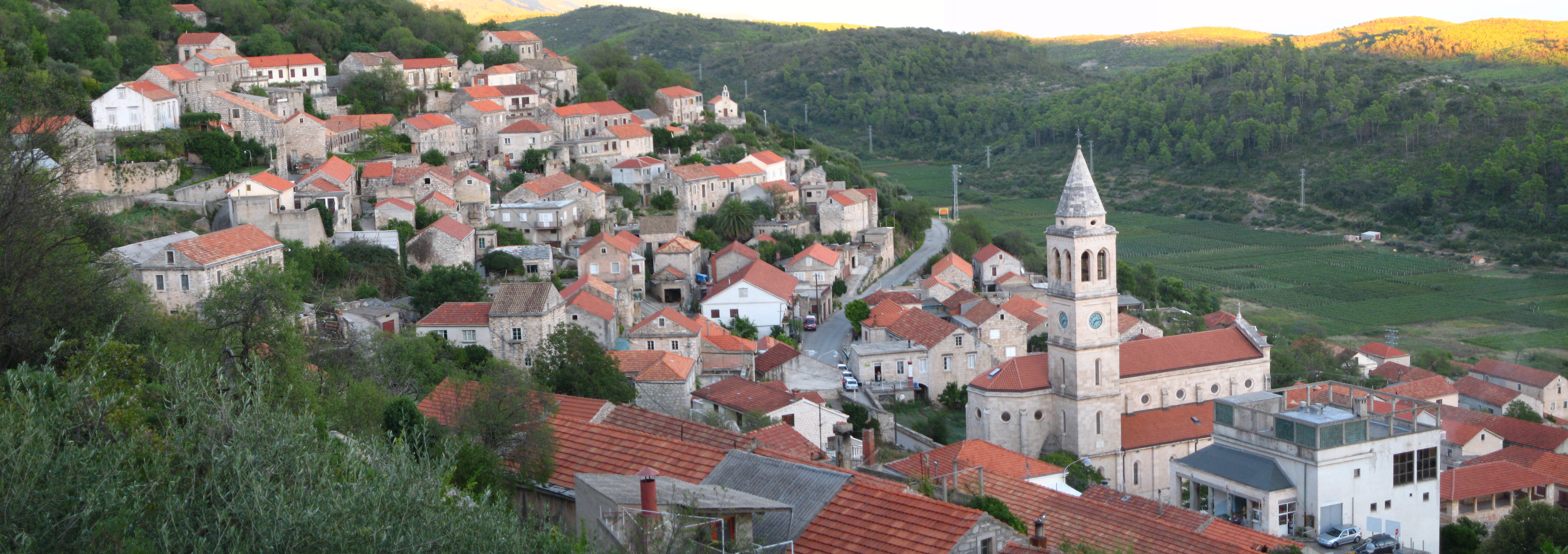 View of Smokvica on the island of Korčula, Croatia